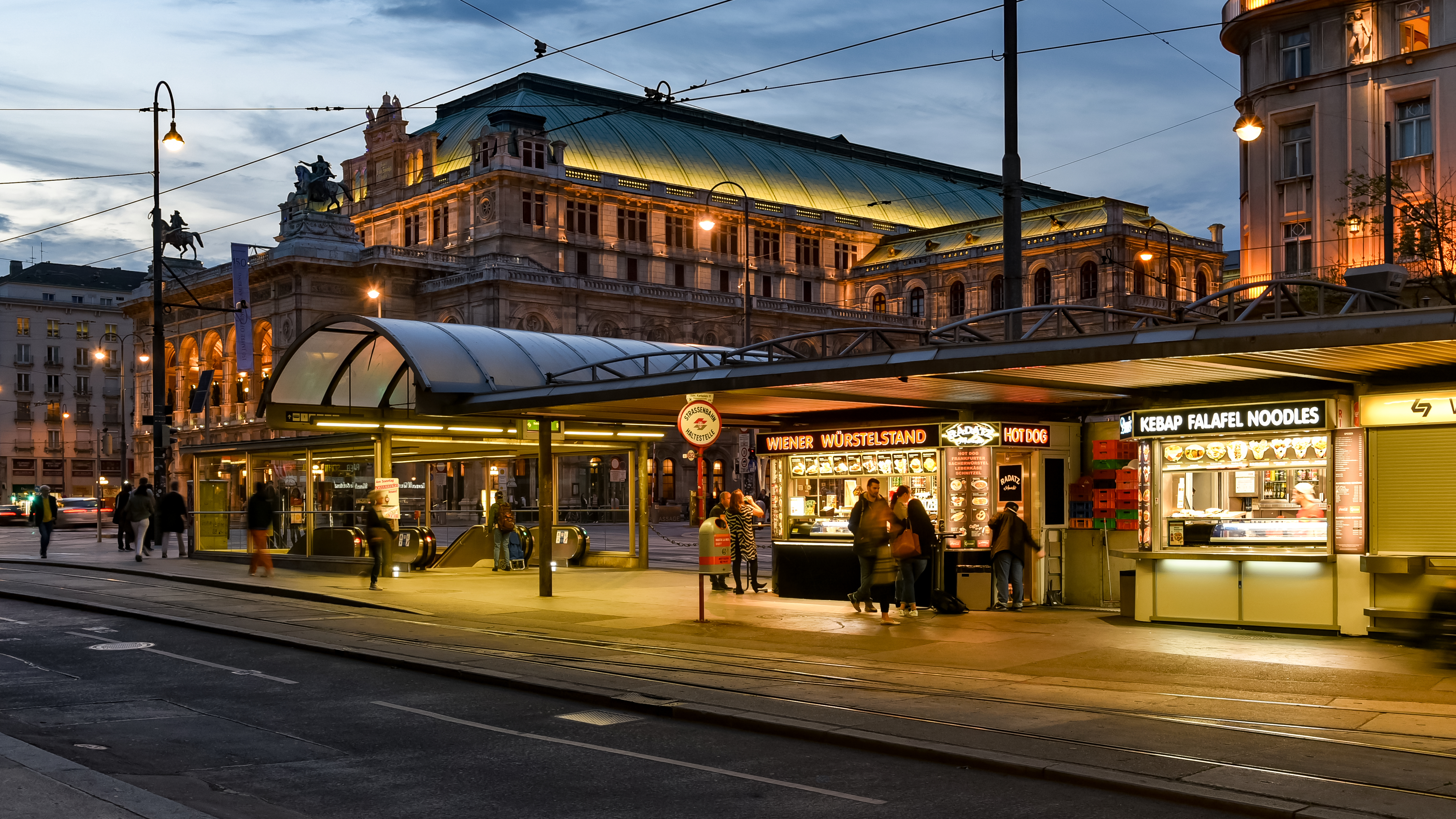 Vienna (Austria)